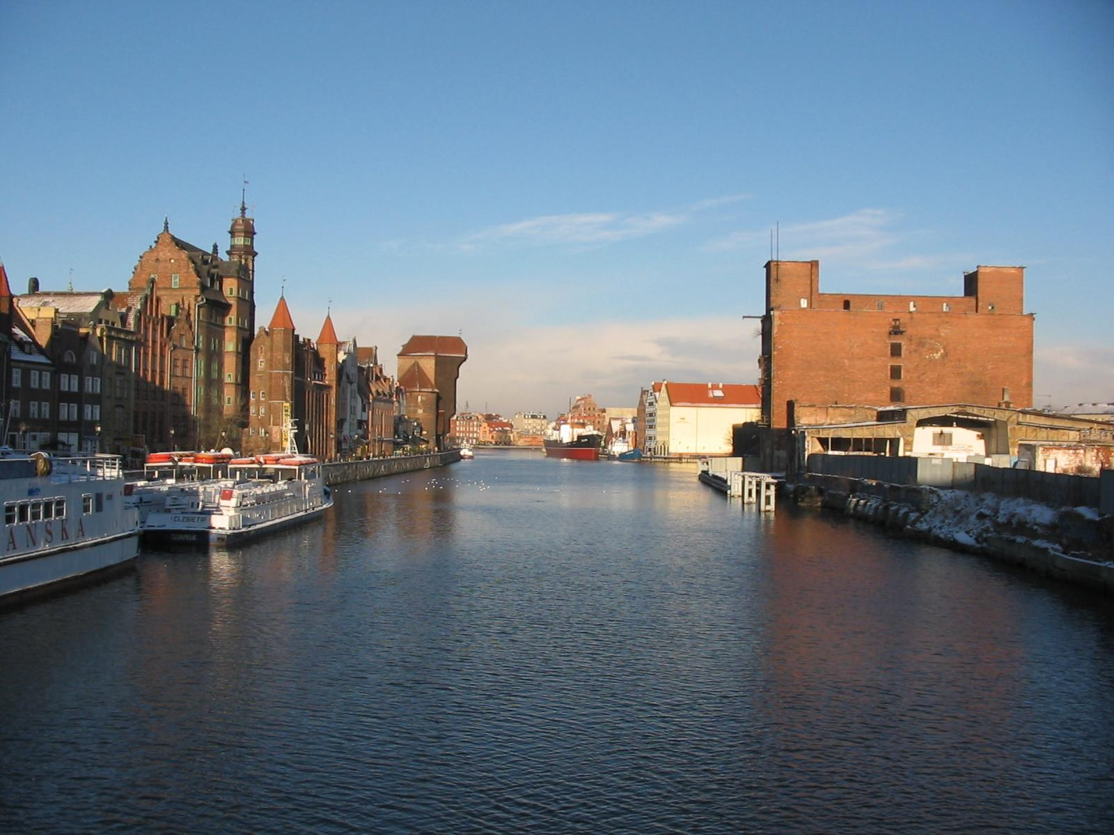 Gdańsk / Gdansk / Danzig - Polska / Polen - Poland @ Baltic Sea river: Motława/Motława; note also the historical crane (see image) and the ship-museum Sołdek (see image)